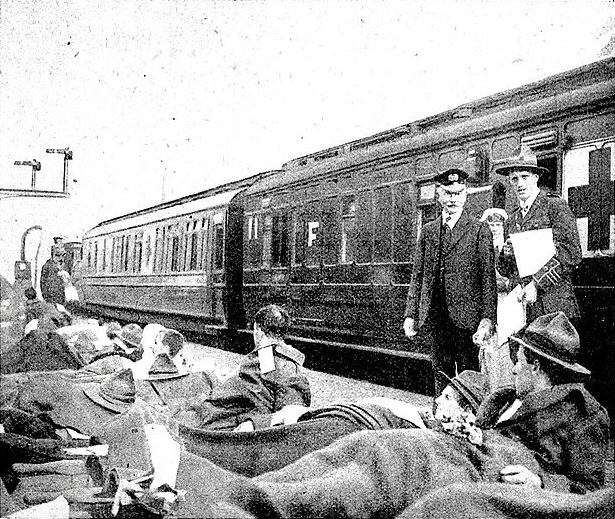 Walton-on-Thames railway station was about one and a quarter miles from No 2 New Zealand General Hospital. Original caption: "New Zealand soldiers permanently unfit, being entrained at Walton Station, London and South Western Railway, to return to New Zealand".